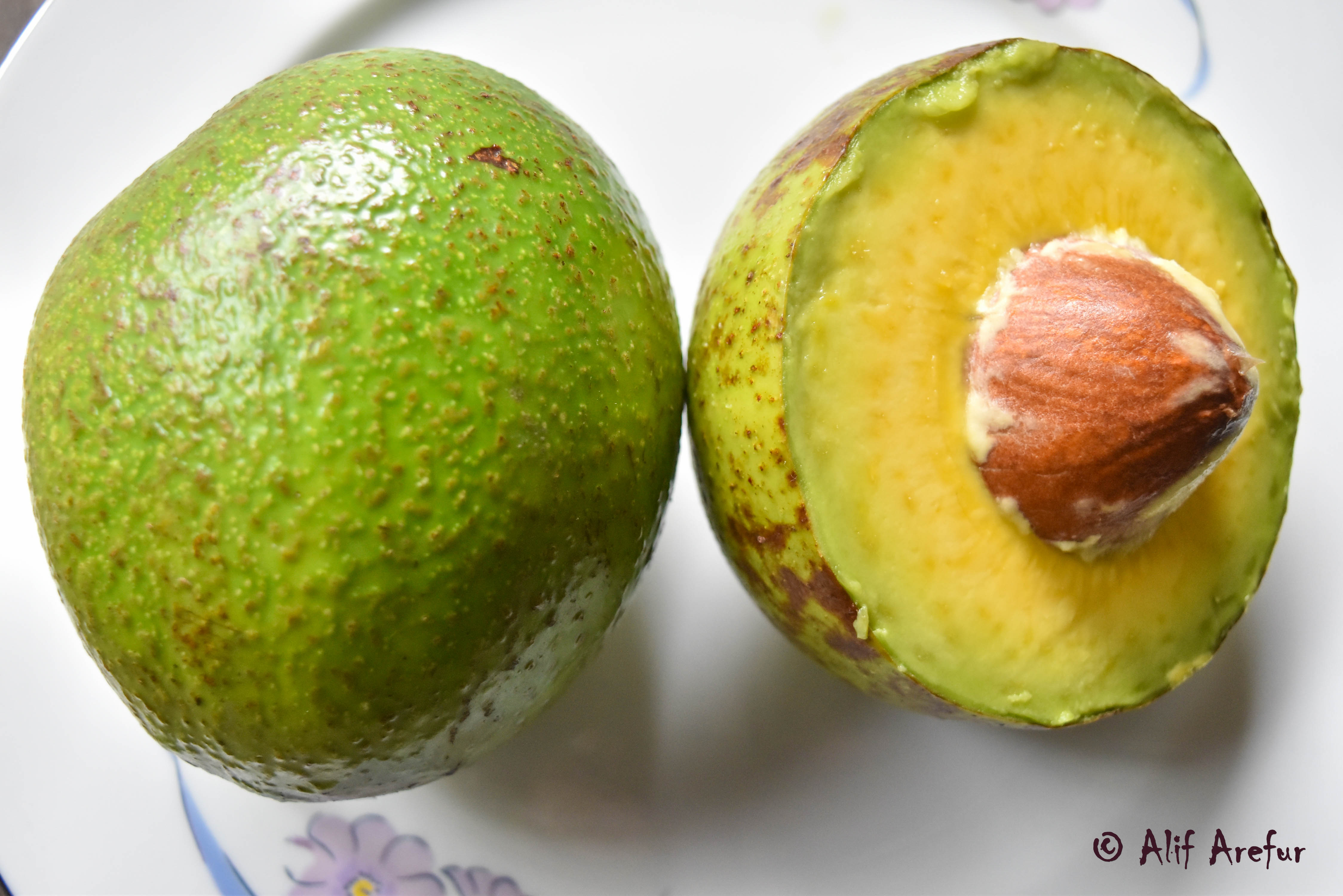 Ripen avocado fruit at Malik's Farm